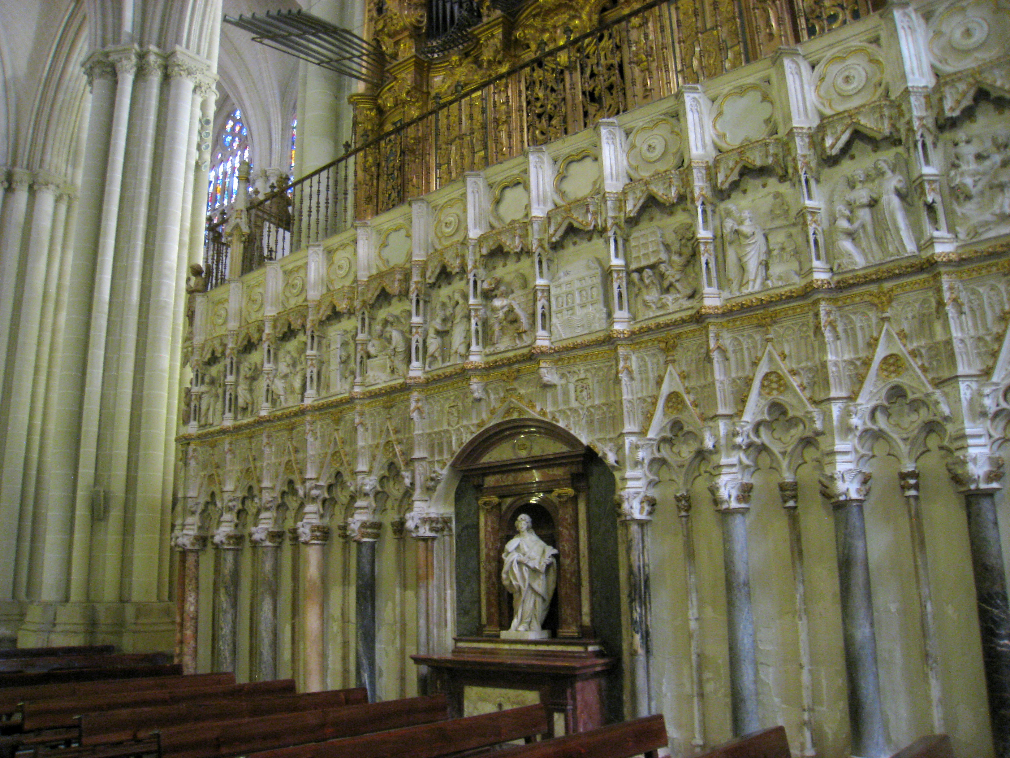 Cathedral of Toledo, Spain.